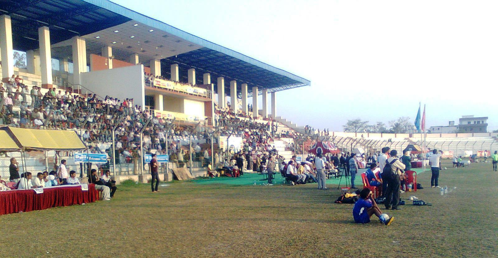 kankarbagh